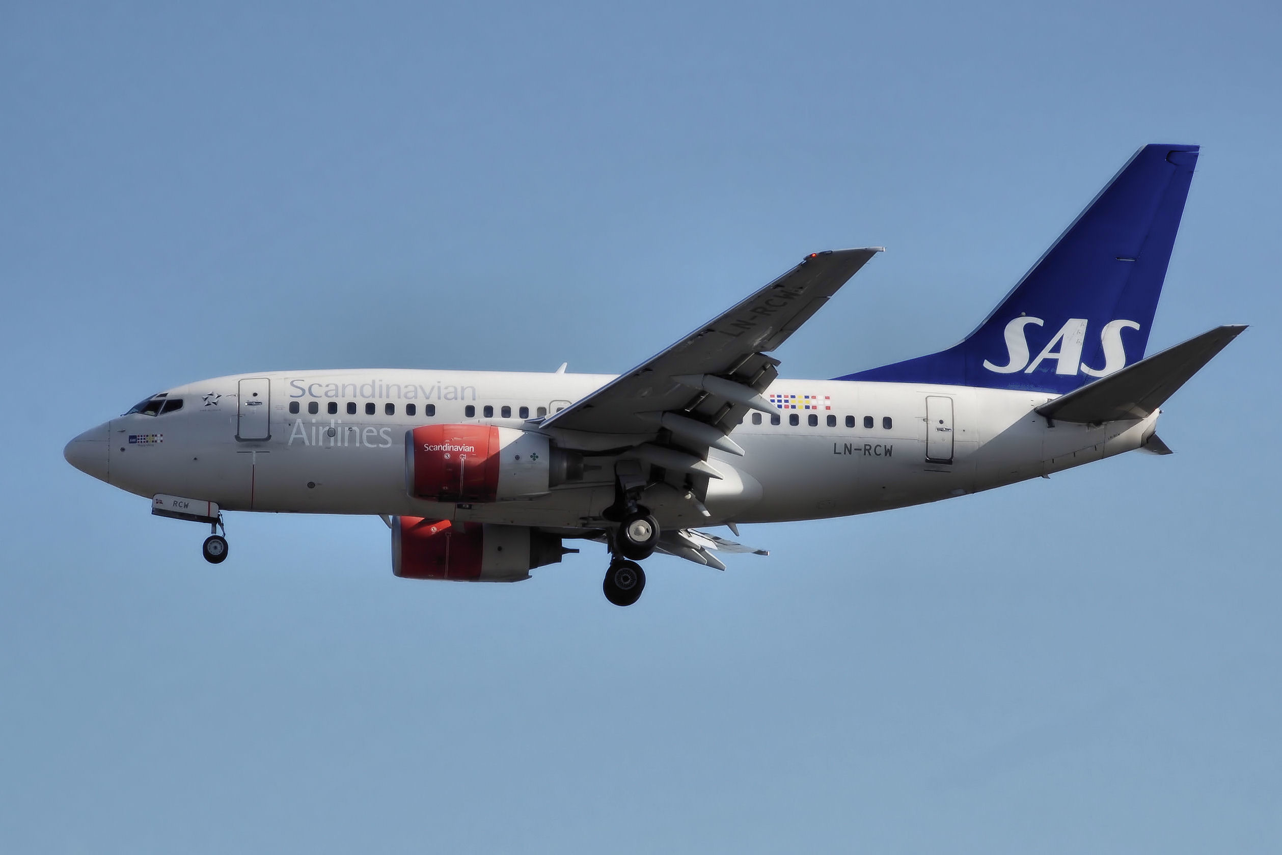 SAS Scandinavian Airlines Boeing 737-600 (LN-RCW) lands at London Heathrow Airport, England.